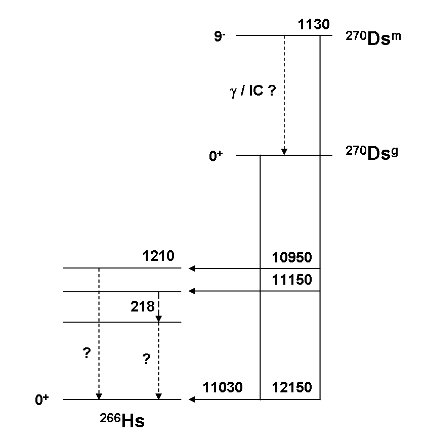 decay scheme for 270Ds